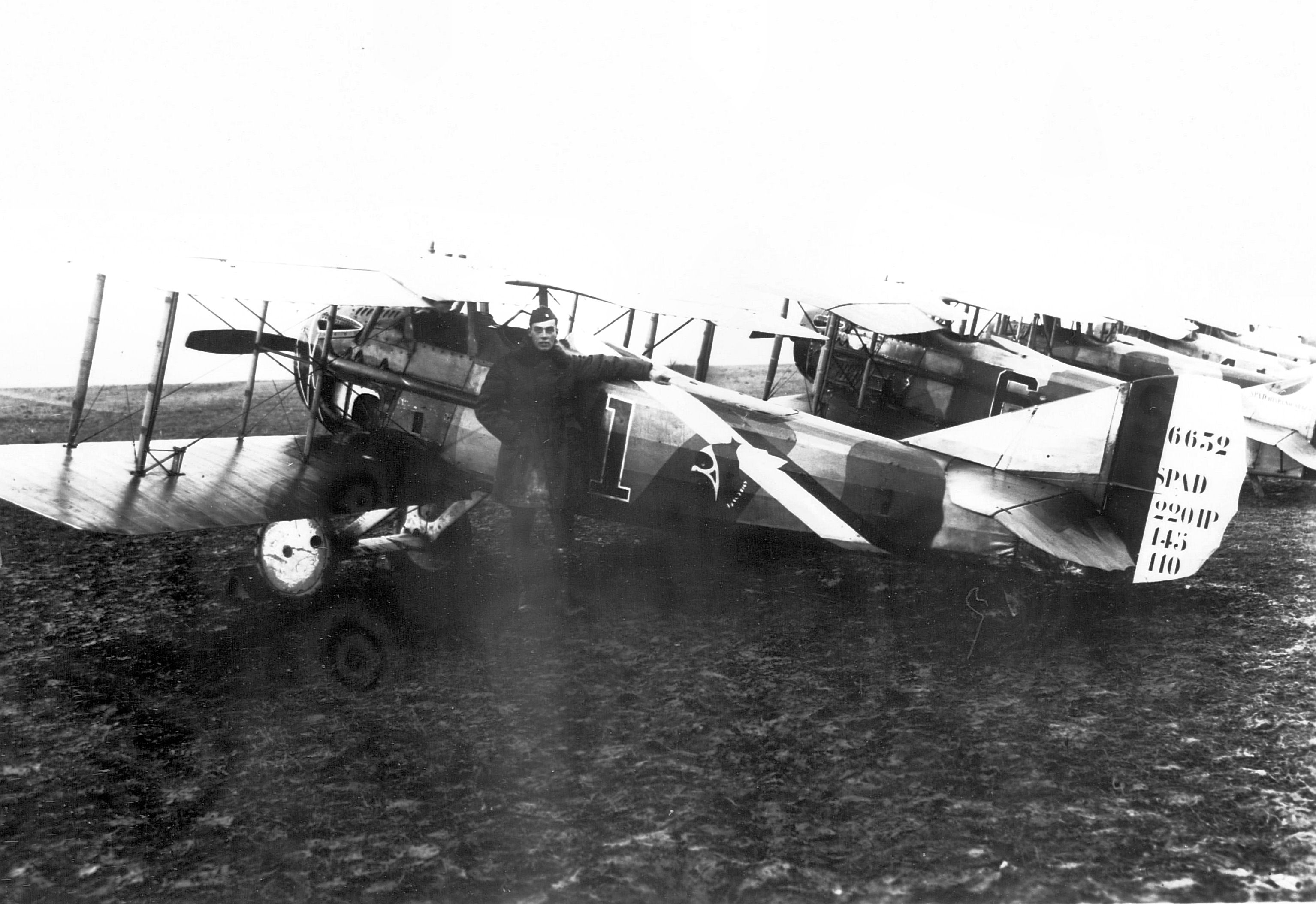 213th Aero Squadron, SPAD XIIIs, Foucaucourt Aerodrome, France, November 1918